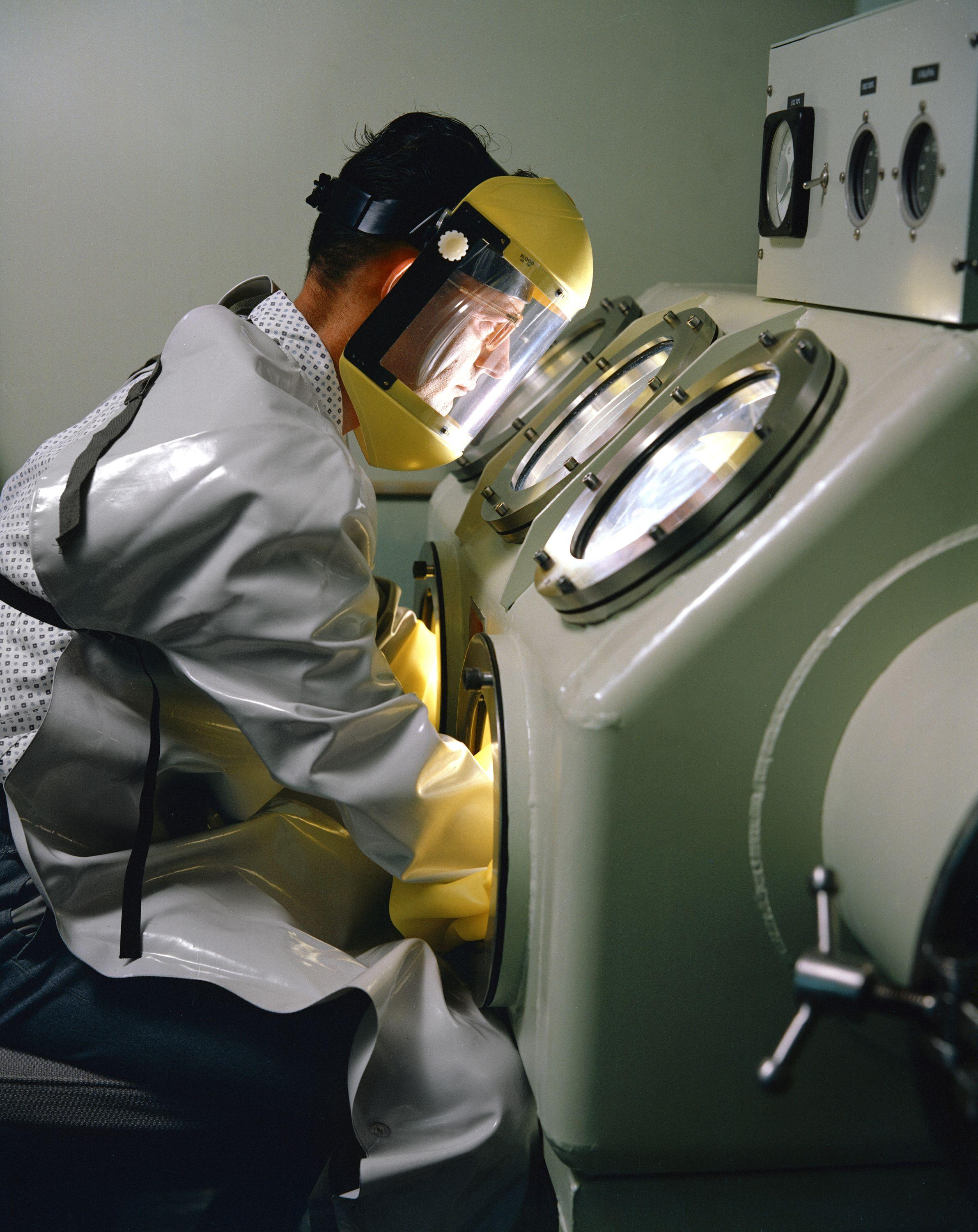 Gary Sullivan demonstrated the use of a vacuum dry box and safety equipment in this April 1963 photo. The box provided an inert, or controlled atmosphere, for handling sensitive materials such as cesium during tests of components and materials for ion motor propellant feed systems. It had internal electrical power and lighting, as well as argon gas and vacuum lines. Thick Plexiglas implosion shields usually found on the view ports were removed for this photo. The vacuum dry box was just one piece of equipment in the Thrust Devices Laboratory in JPL's building 125-B7. This lab went into operation in June 1962 and was used by the Advanced Propulsion Engineering Section in research relating to nuclear-electric propulsion systems development.